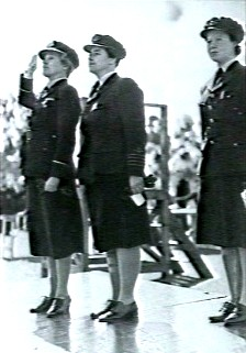 MELBOURNE, VIC. THE AIR COMMANDANT OF THE WOMEN'S AUXILIARY AUSTRALIAN AIR FORCE (WAAAF), HER EXCELLENCY LADY (ZARA) GOWRIE, WIFE OF THE GOVERNOR GENERAL, TAKES THE SALUTE DURING THE MARCH PAST. WITH HER IS GROUP OFFICER CLARE STEVENSON, CONTROLLER WAAAF; SQUADRON OFFICER M. F. MILLER, DEPUTY DIRECTOR.